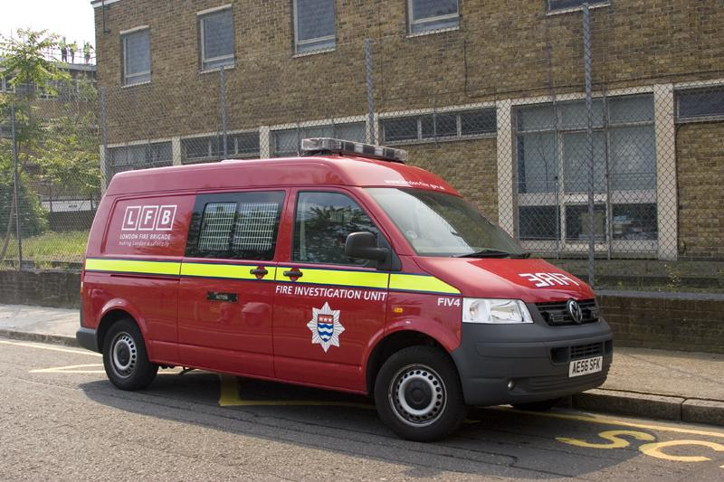 London fire investigation van.